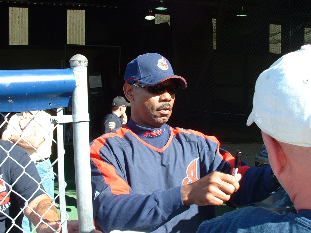 Ellis Burks signs autographs for fans at Indians' Spring Training in Winterhaven, Fl in 2007.